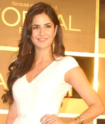 Katrina Kaif launching L'Oréal's 6 Oil Nourish